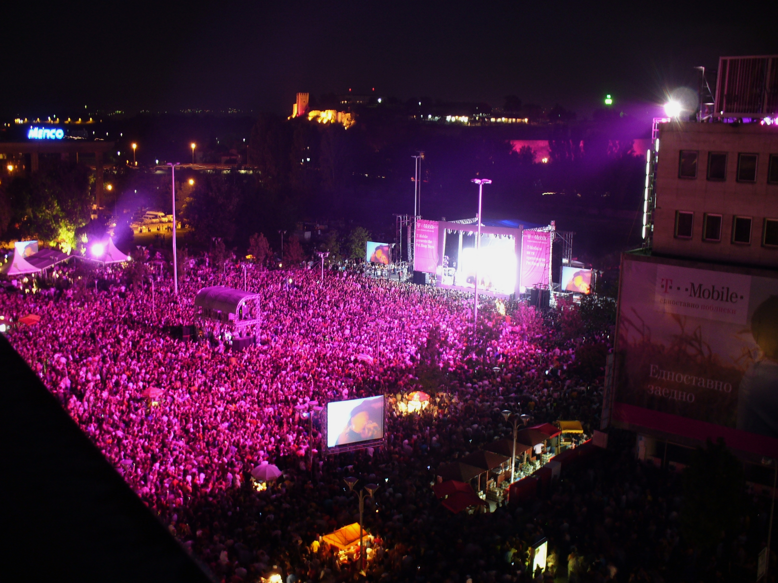 Mobimak rebranding to T-Mobile party. Pet Shop Boys concert in Skopje, R. of Macedonia. 7 September 2006.